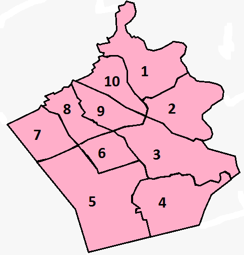 Map of Kitchener, Ontario's 10 municipal wards used since 2010.